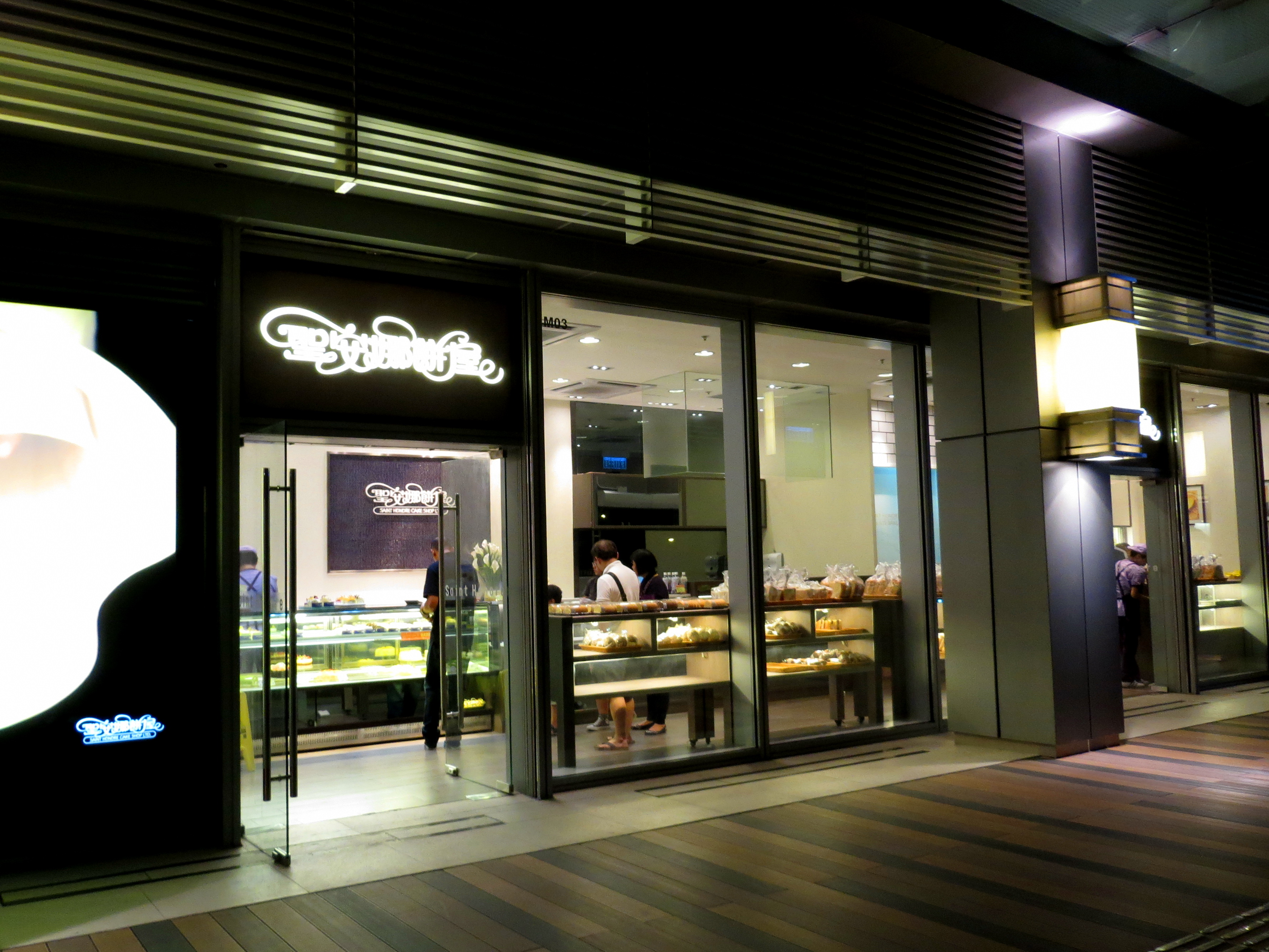 Saint Honore Cake Shop, Shop No. M03 & 04 on MTR Floor, Domain, Yau Tong, Hong Kong.